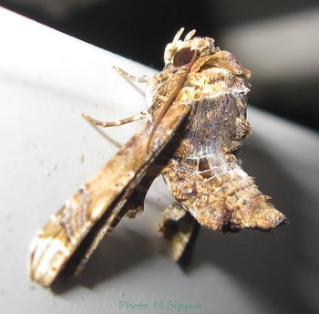 Eutelia blandiatrix moth, (Guenée 1852) Euteliinae Picture taken in Réunion